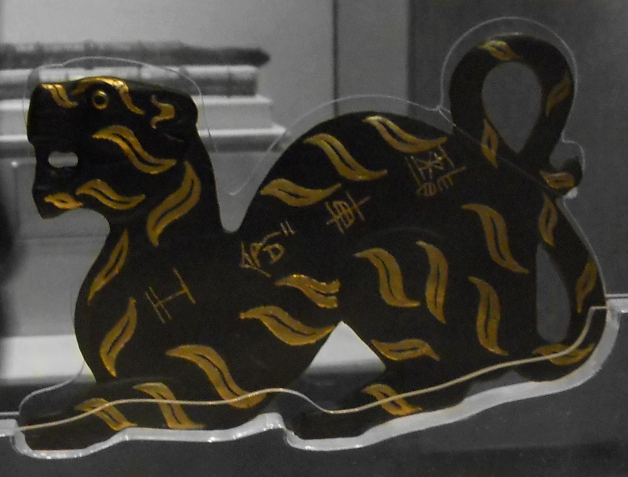 Bronze tiger inlaid with gold found in the tomb of Emperor Triệu Văn (Zhao Mo) of Nanyue kingdom during Triệu dynasty in Guangzhou, China. Inscribed 王命車徒 "The king orders the carriage to move"